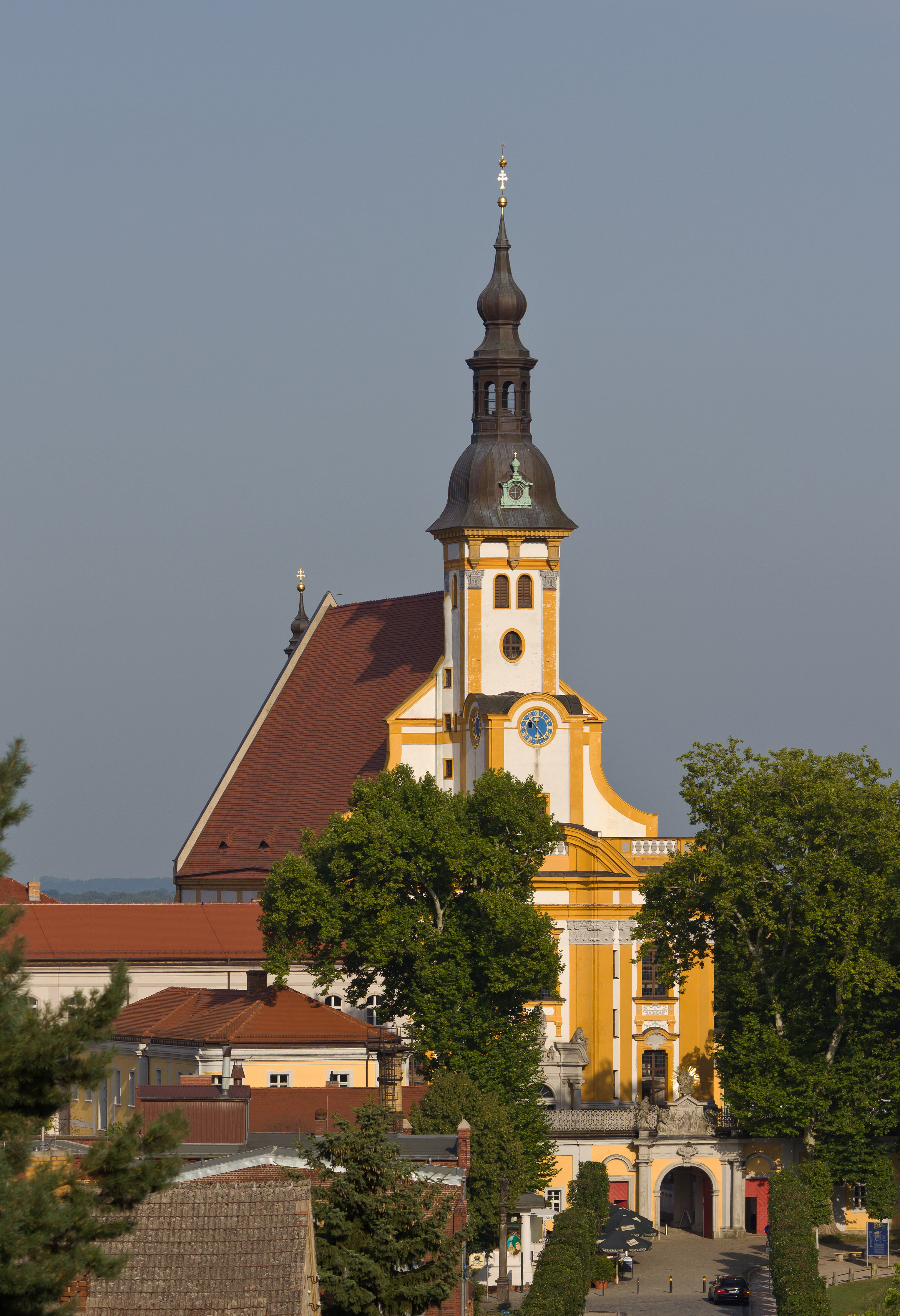 Neuzelle Abbey in Neuzelle, Brandenburg, Germany